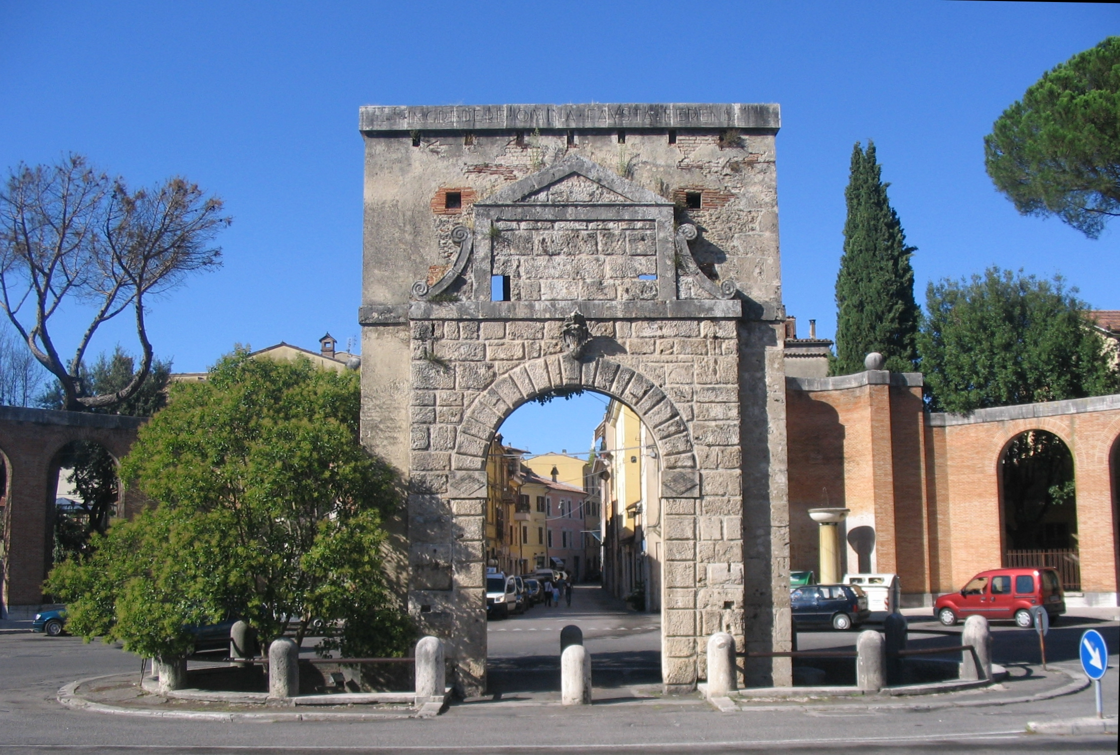 Porta Romana - View - Rieti, Lazio, Italia